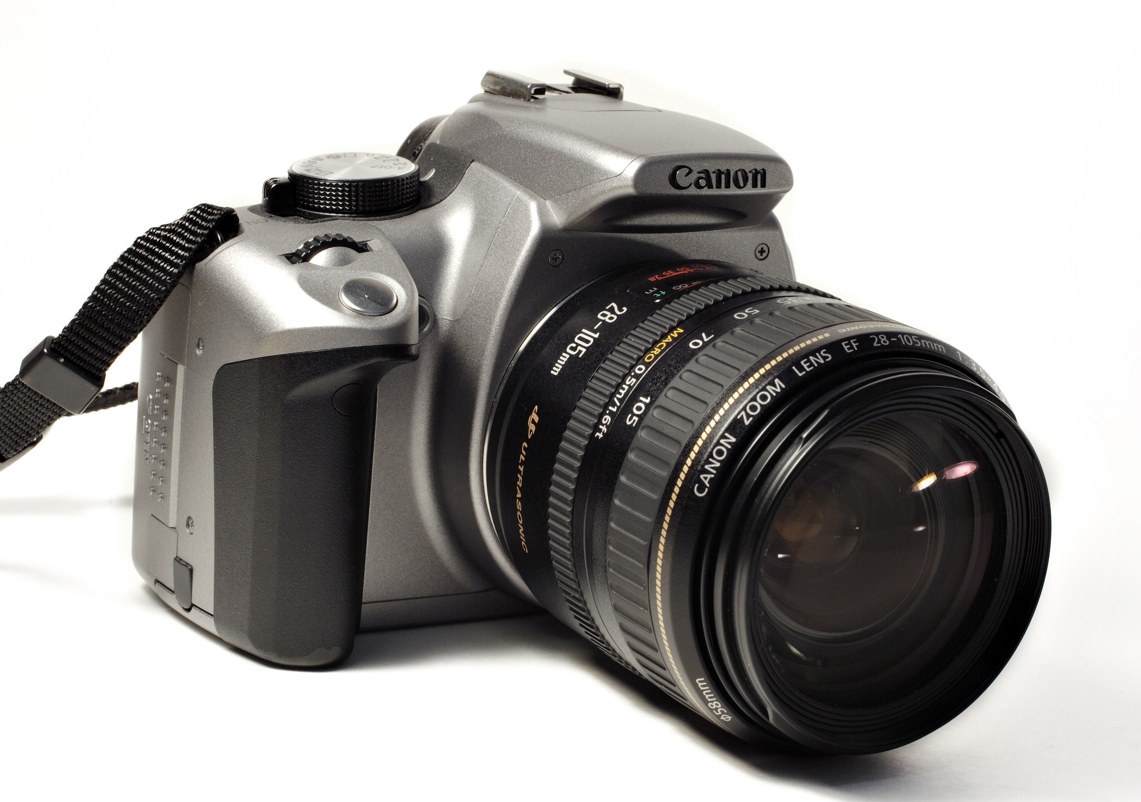 Canon Digital Rebel XT (350D) with EF 28-105 f/3.5-4.5